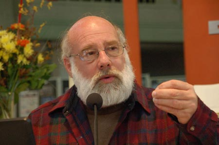 Jeff Halper